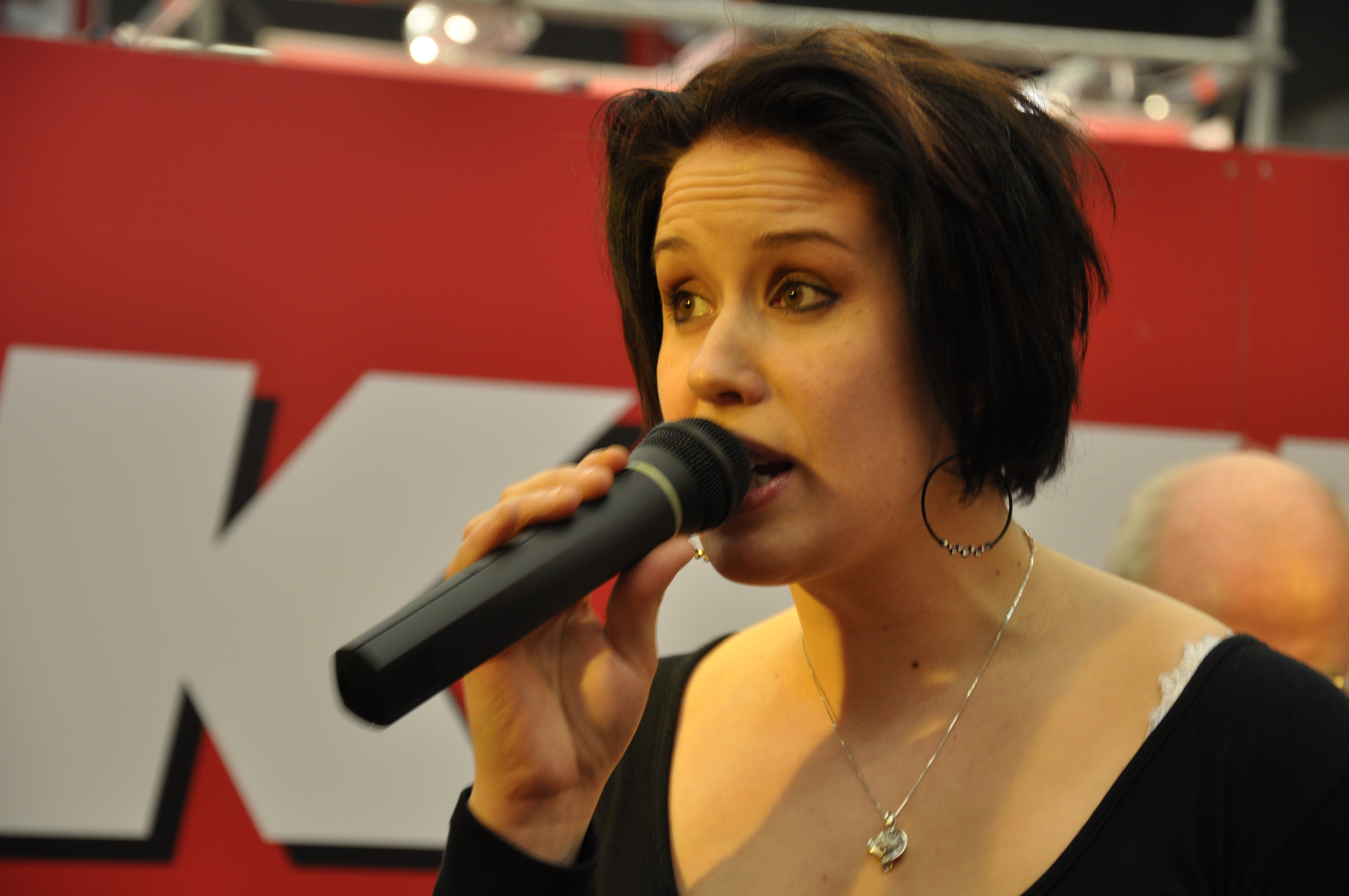 Finnish singer Anniina Mattila performing at the Rakentaminen & Asuminen 2009 Fair in Turku, Finland.